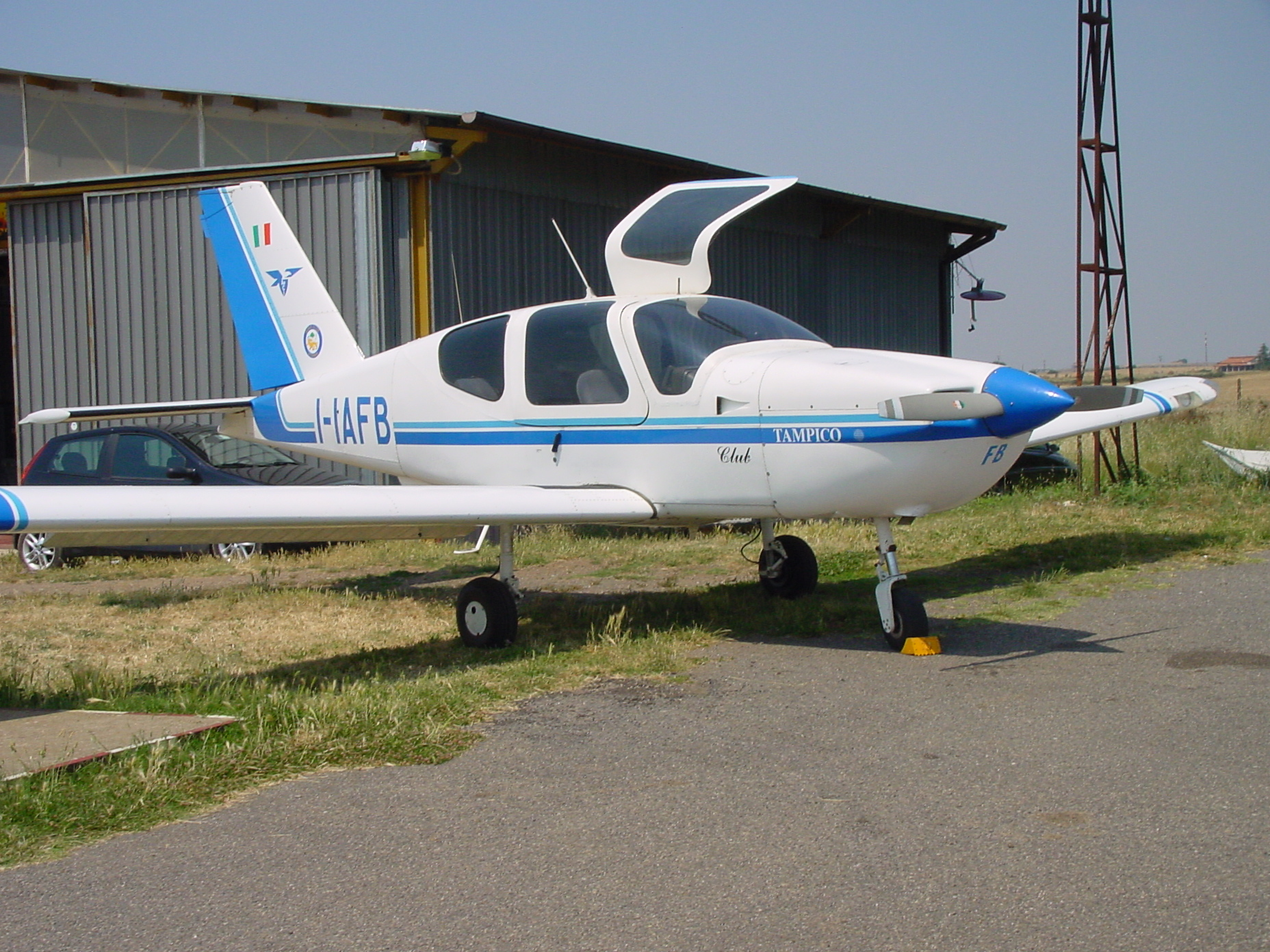 Socata TB9 Tampico Club registration number I-IAFB at Viterbo-Italy Air Club